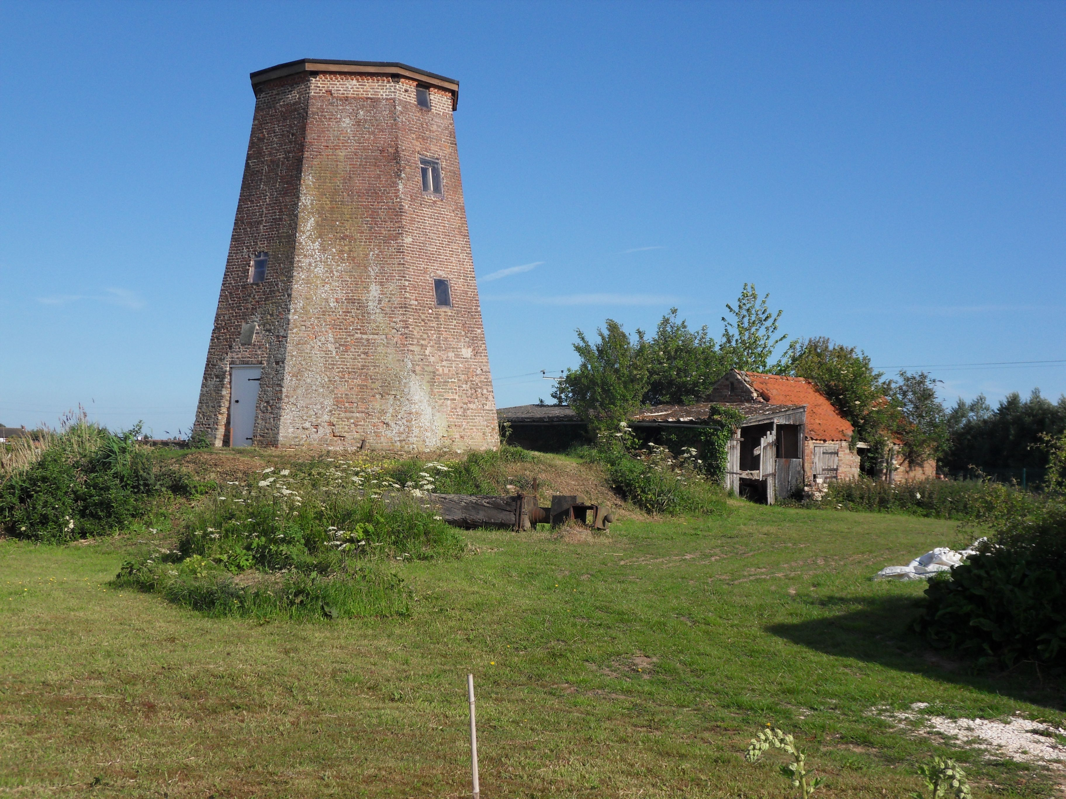 A grade 1 listed building 1797